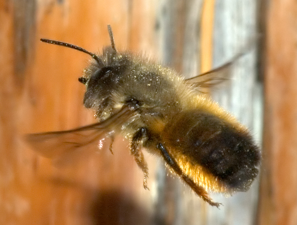 This image shows a flying Osmia rufa bee.